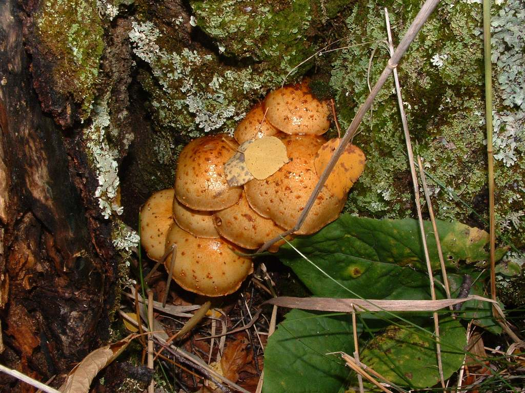 Fungi in Split Rock Lighthouse State Park, Minnesota